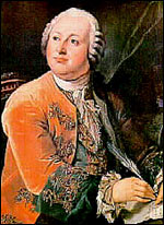 Russian geographer